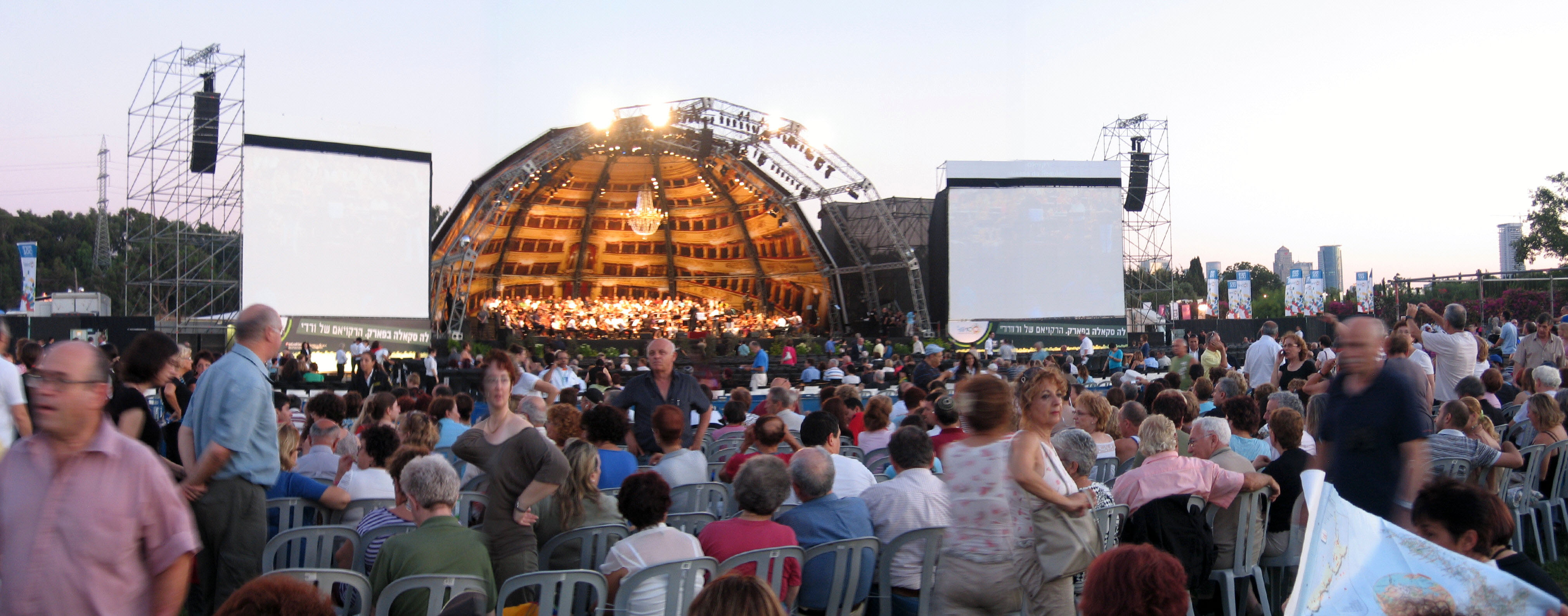 Teatro alla Scala at Yarkon Park, Tlv